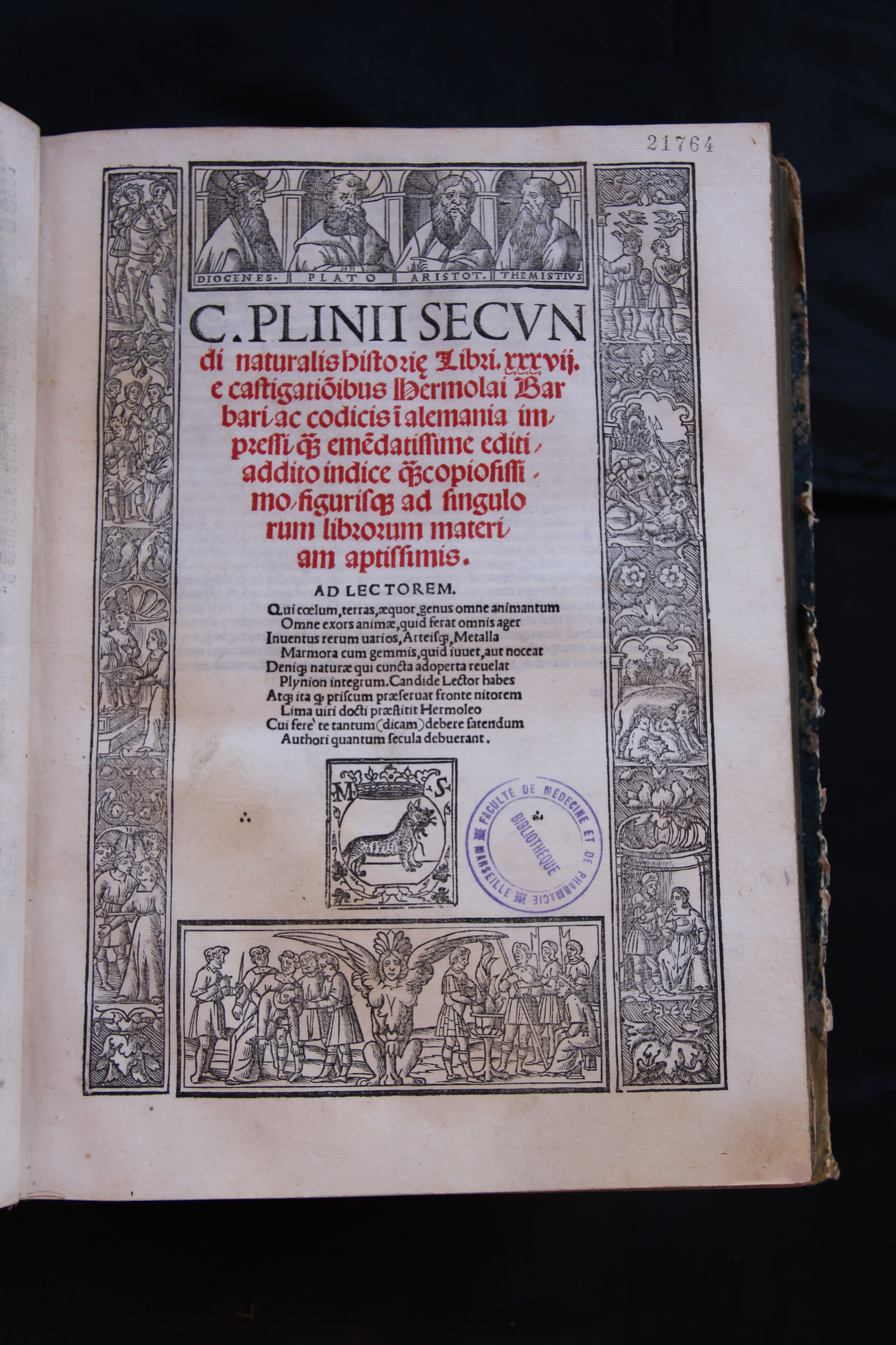 Natural history by Pliny the Elder, 1525